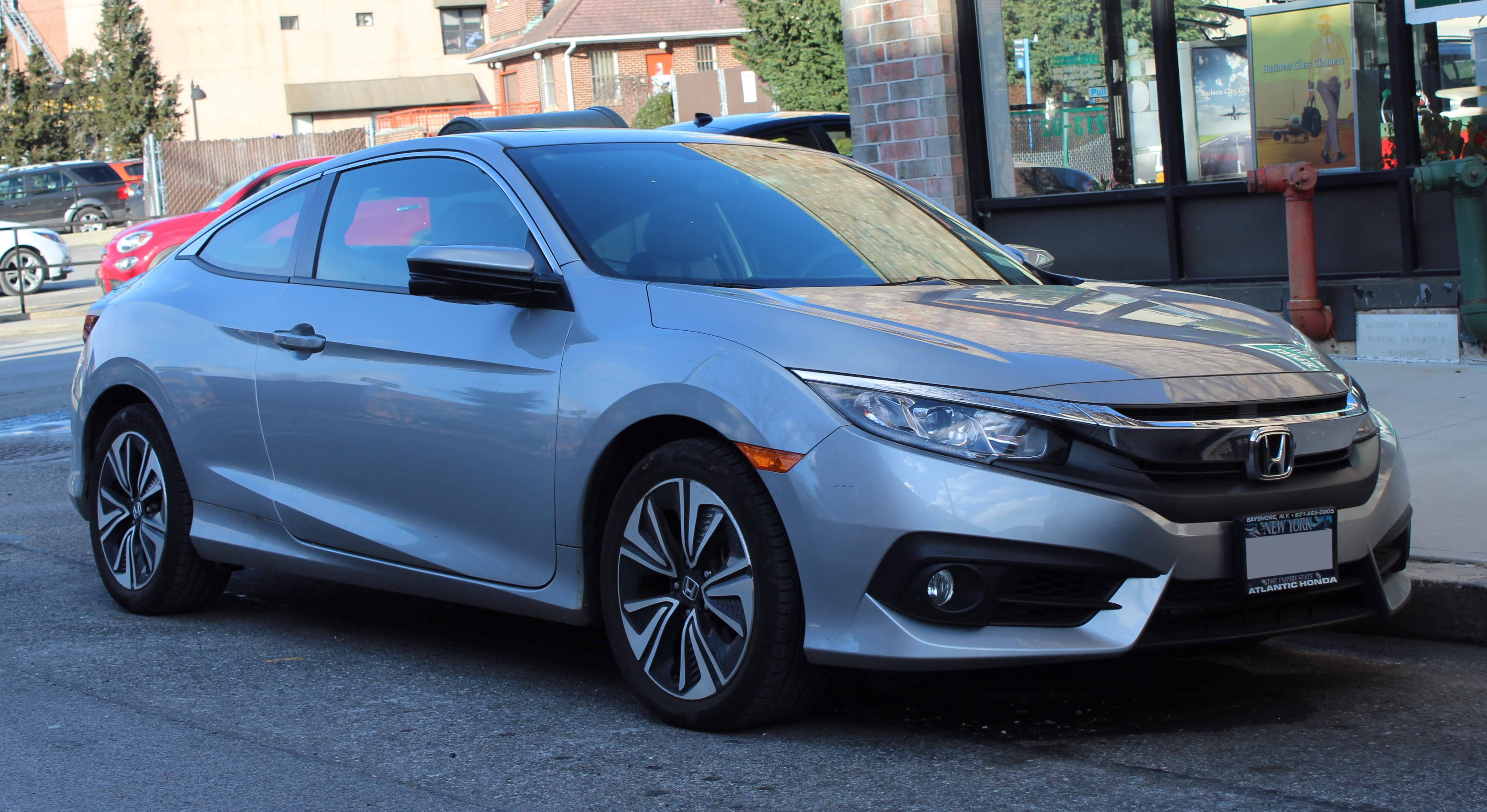 photographed in Queens, New York